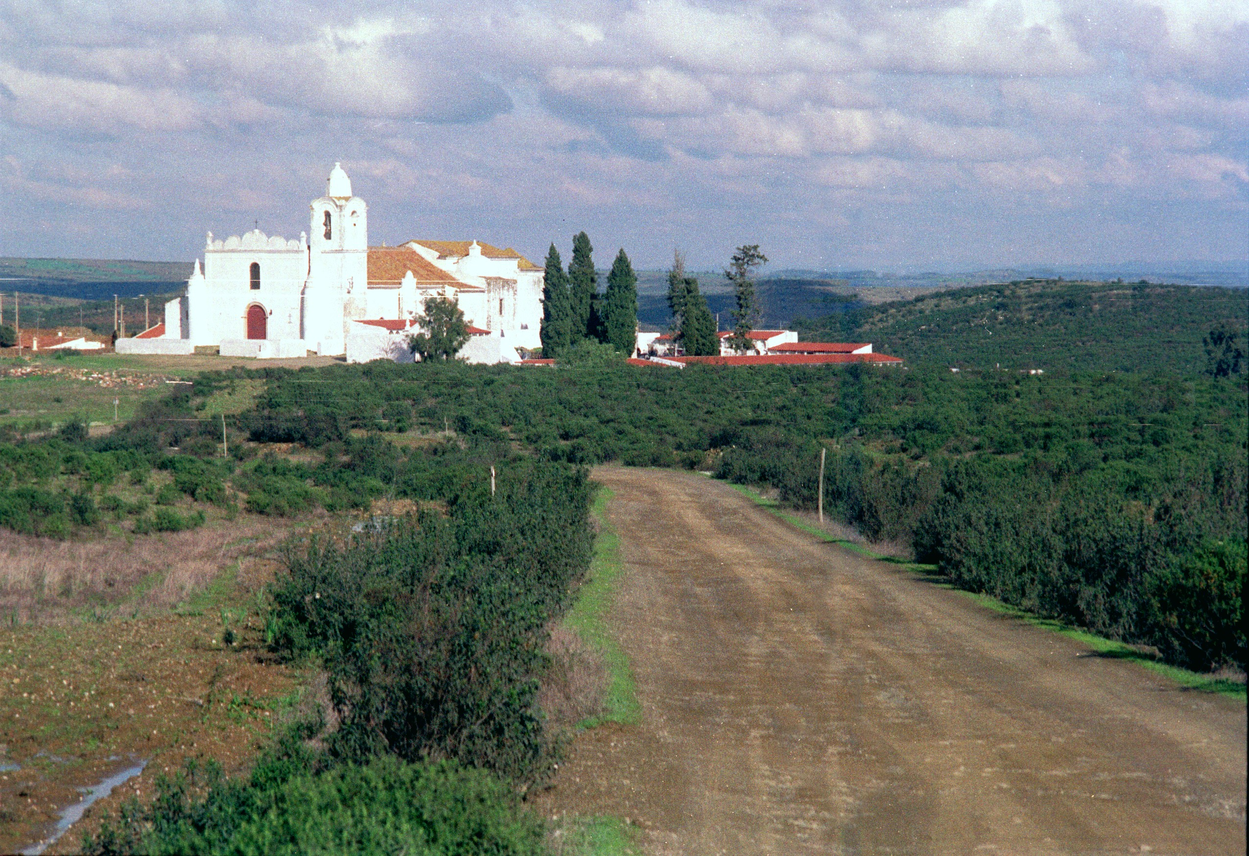 Espirito Santo, the village church